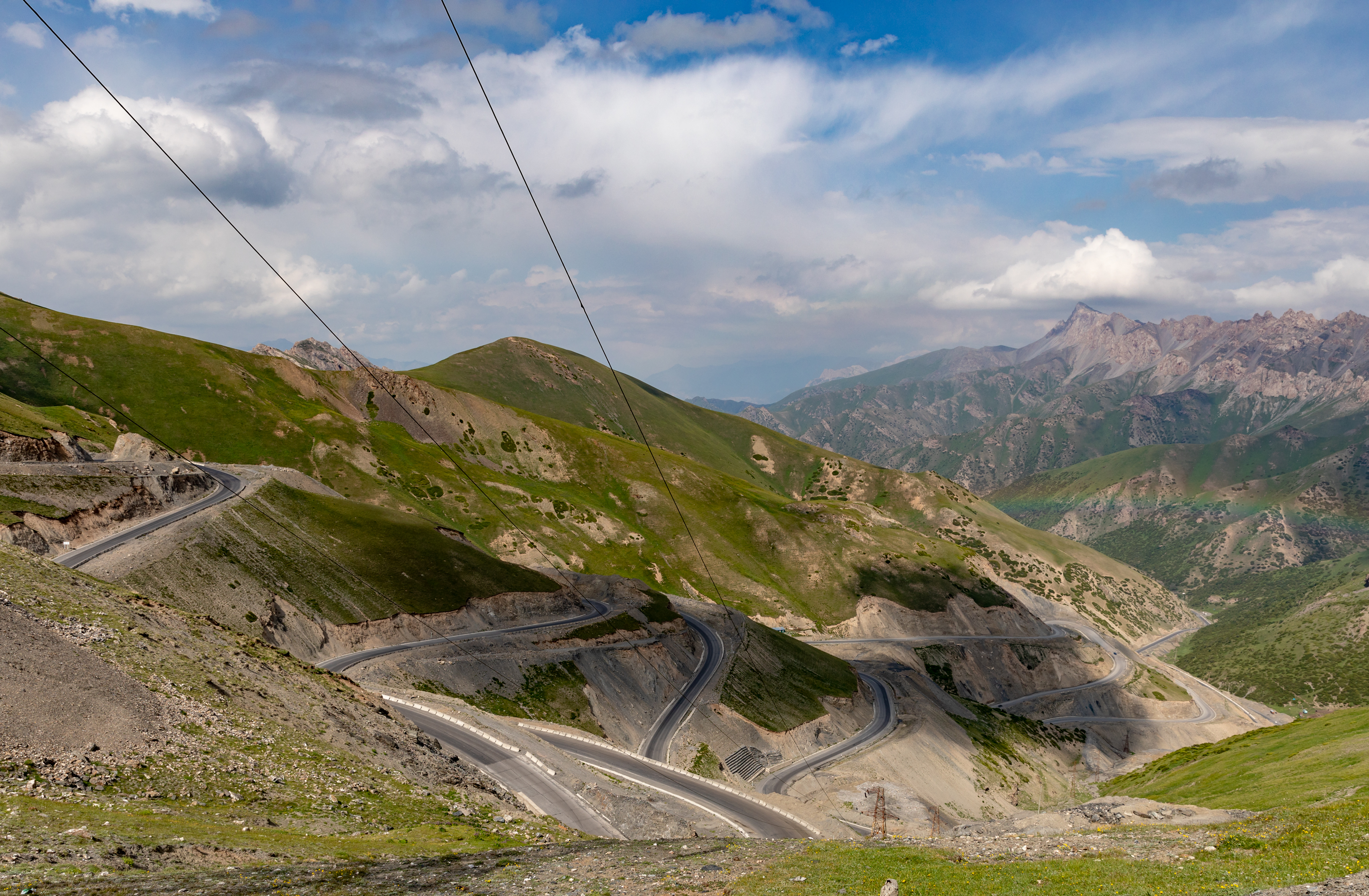 Taldok Pass Kyrgyzstan, Pamir Highway